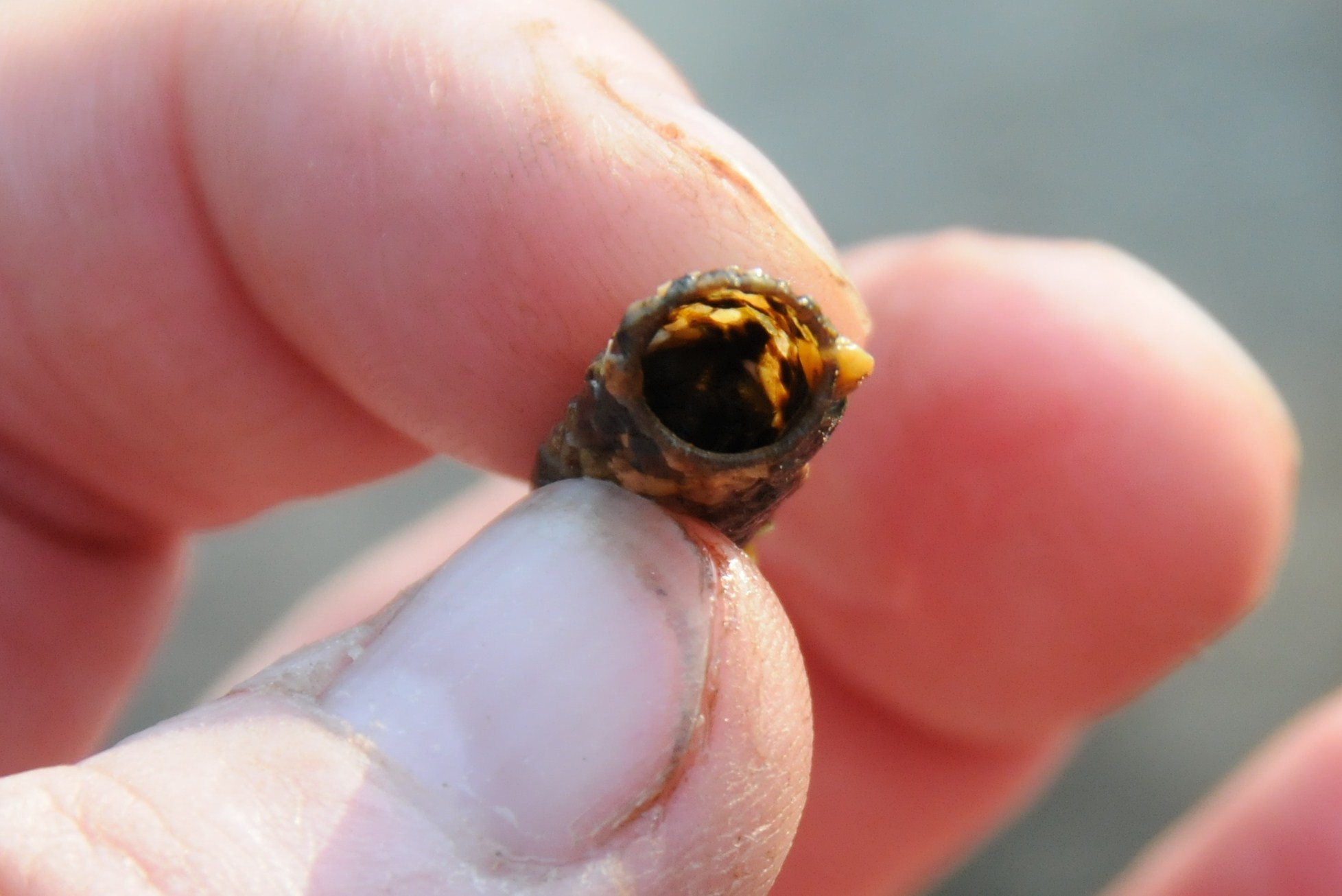 Spun shell of a caddisfly larva